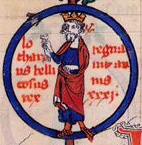 Lothair of France